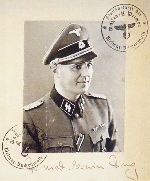 Portrait of Dr. med. Erwin Ding (Ding-Schuler) as a physician of the Armed SS in the Buchenwald concentration camp. Photograph shown in section 4/36 in the museum of the Buchenwald Memorial regarding typhus experiments with prisoners 1942-1945.